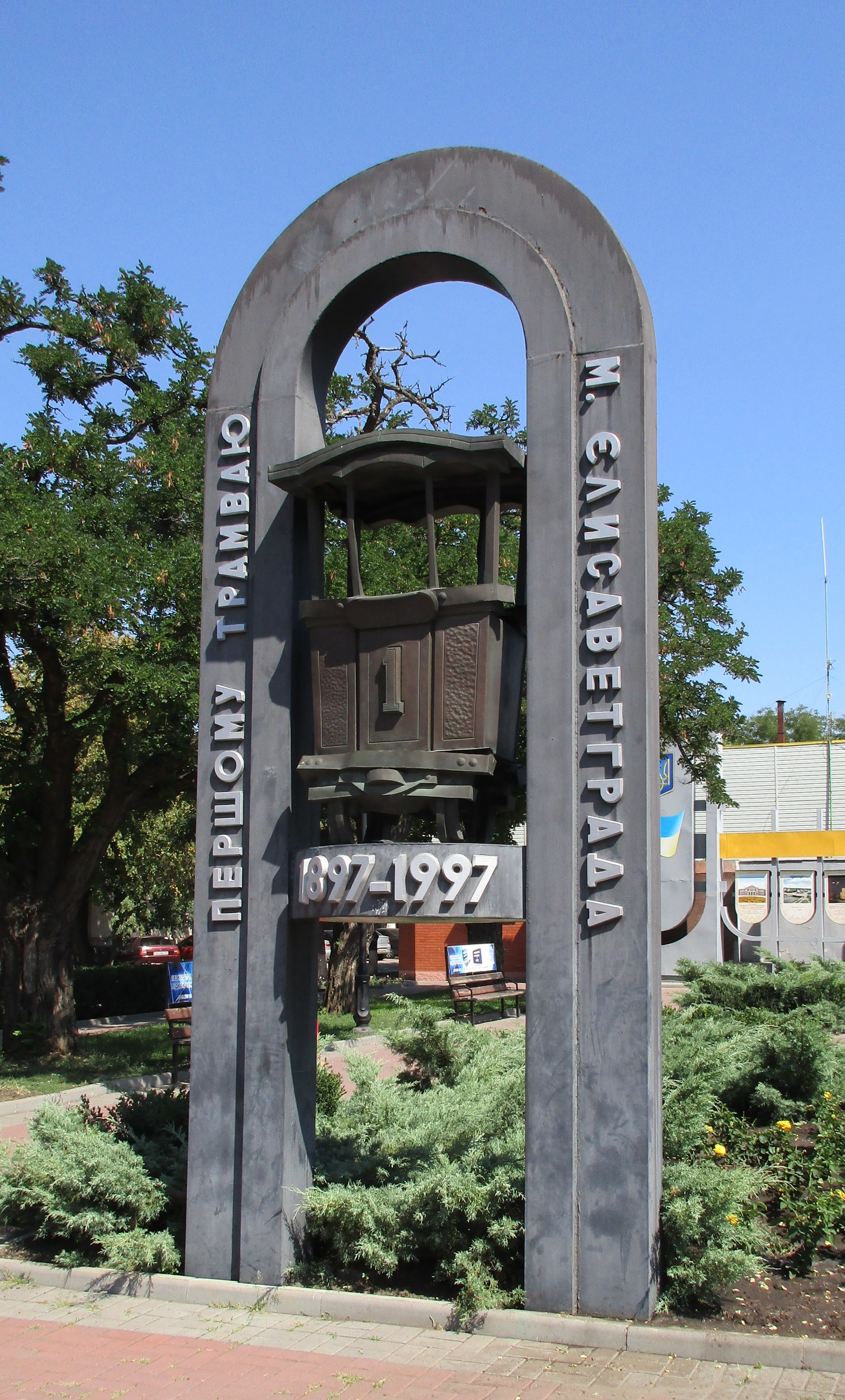 Tram monument in Kropivnitzkiy (former Elizavetgrad), Ukraine